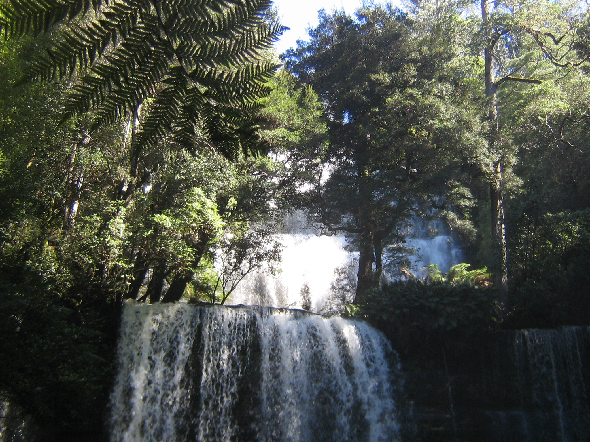 Russell Falls in Mount Field National Park, Tasmania